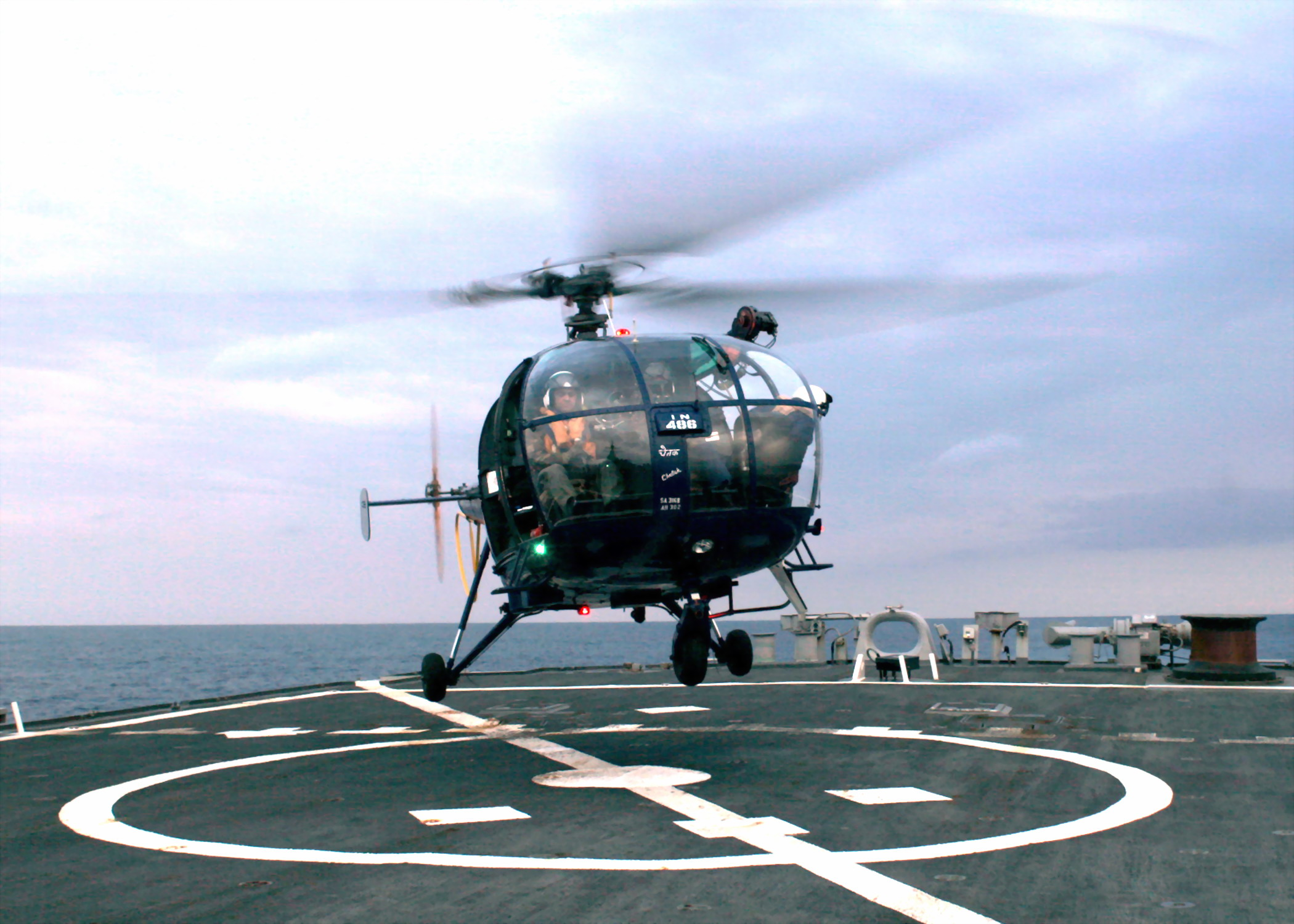 PHILIPPINE SEA - A Chetak Helicopter from the Indian ship Rajput class destroyer INS Rana (D 52) prepares to land onto the flight deck of the Arleigh Burke-class guided missile destroyer USS Stethem (DDG 63). Stethem is participating in MALABAR, a bilateral U.S. Navy and Indian Navy exercise that is designed to increase interoperability between the Indian and U.S Navies enhancing the cooperative security relationship between India and the United States. U.S. Navy photo by Ensign Danny Ewing Jr. (RELEASED)